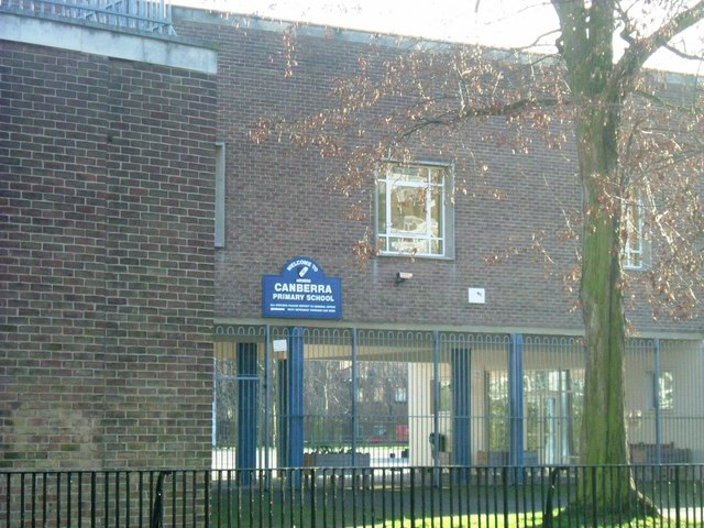 Canberra Primary School Canberra Primary School that's in the White City estate.